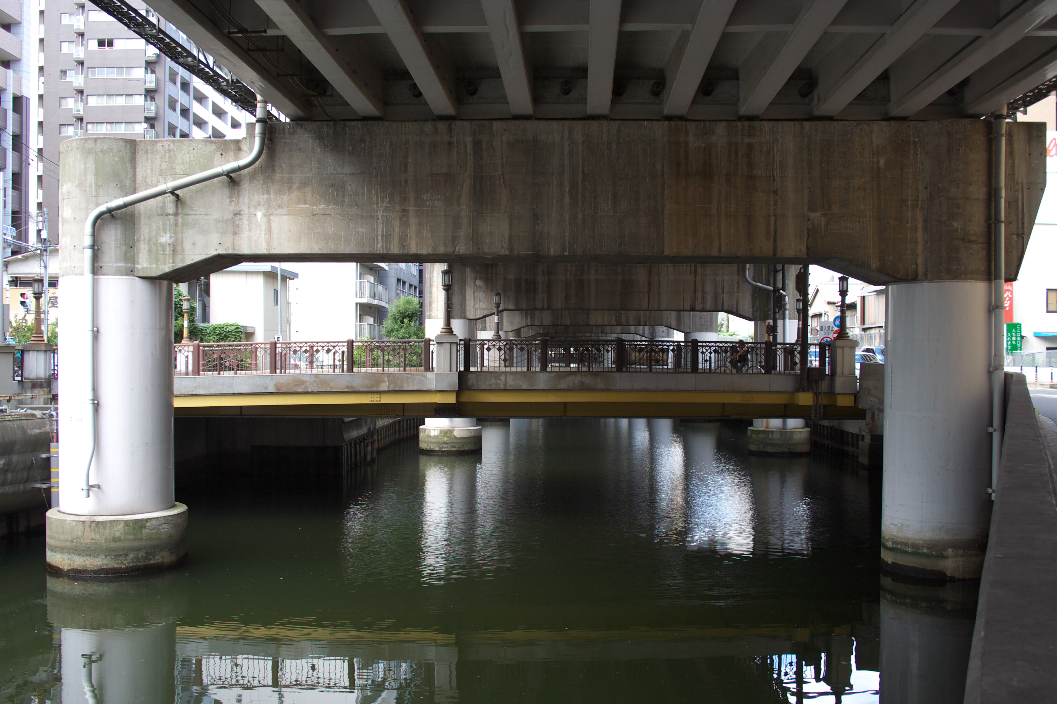 Kamiyamatobashi Bridge (Osaka City, JAPAN)